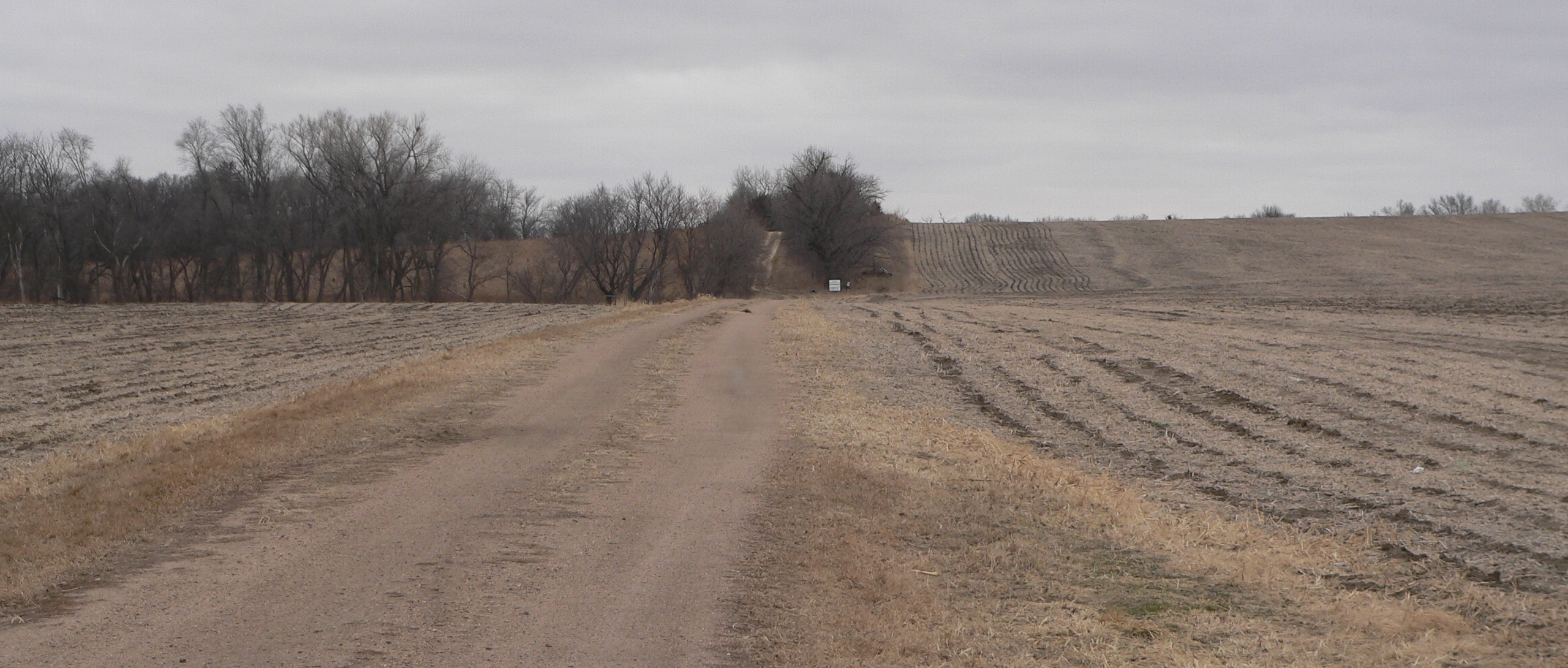 Pahuk hill, looking north.